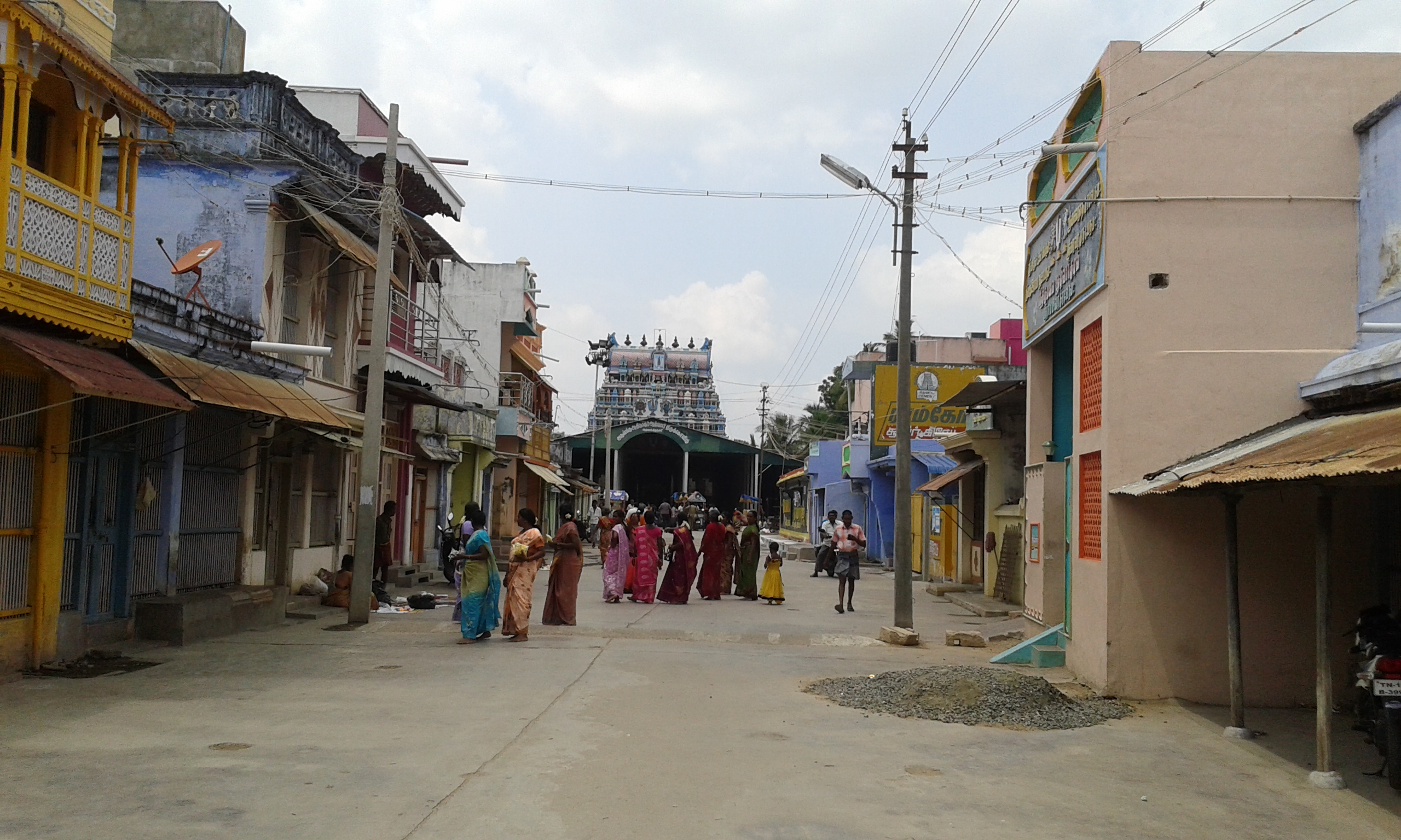 Azhwar Thirunagari